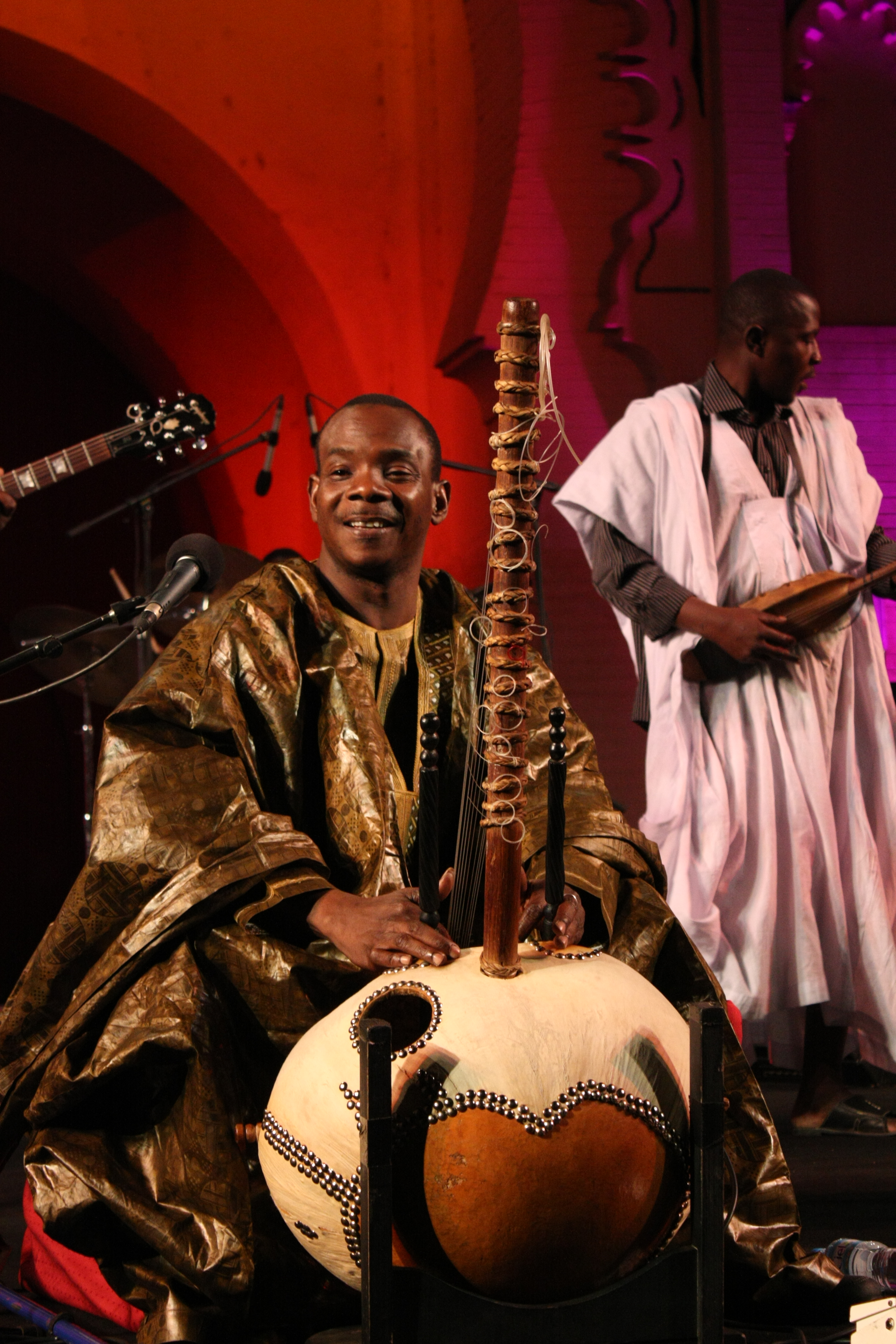 Fez, Morocco: Toumani Diabaté, 'prince of the kora'